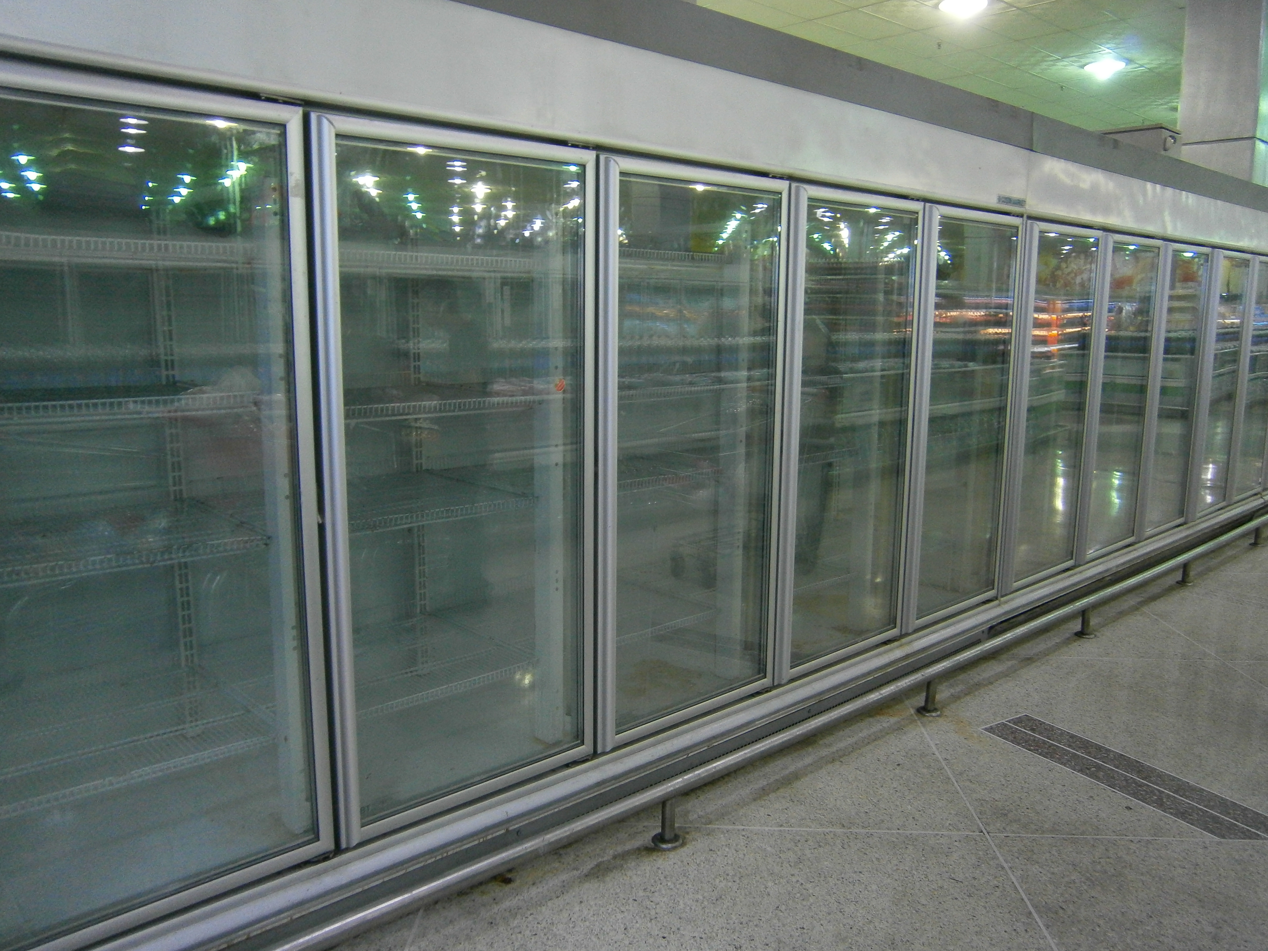 Shortages in Los Teques